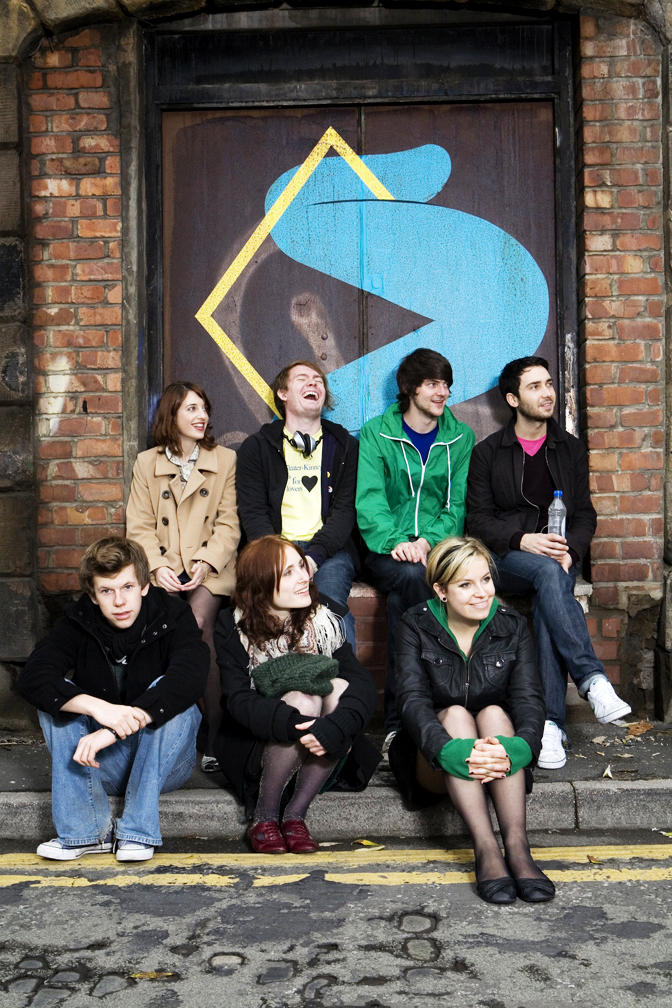 Los Campesinos! Indie pop band formed in Wales Harriet, Gareth, Neil, Tom Ollie, Aleksandra, Ellen